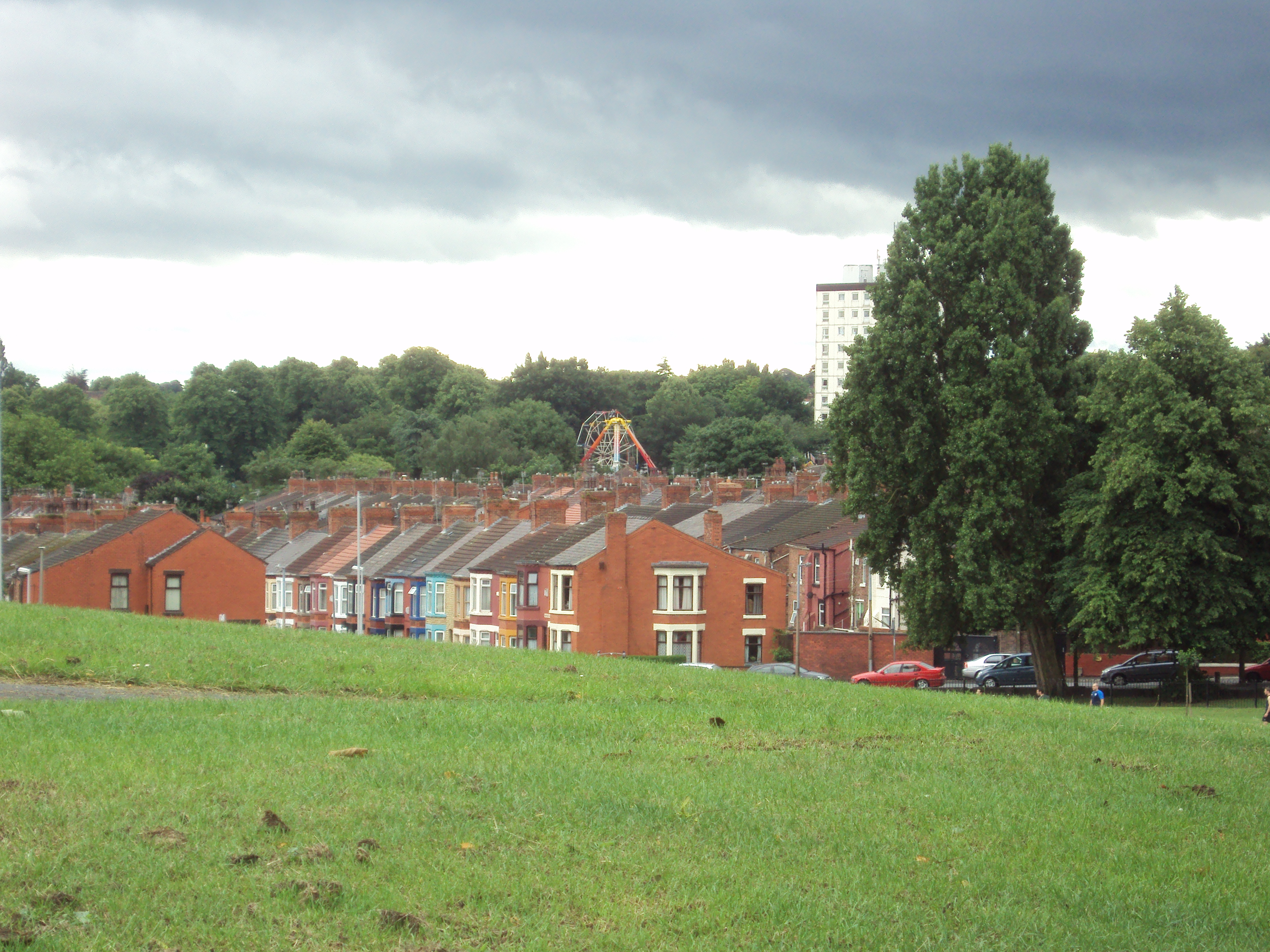 Looking from Mersey Park at Agnes Road towards Victoria Park, Tranmere, Birkenhead, Merseyside. A small temporary ferris wheel was set up in Victoria Park during the Tranmere Community Show.